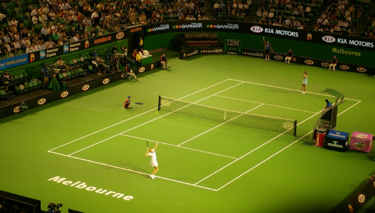 Tennis match during the 2007 Australian Open.